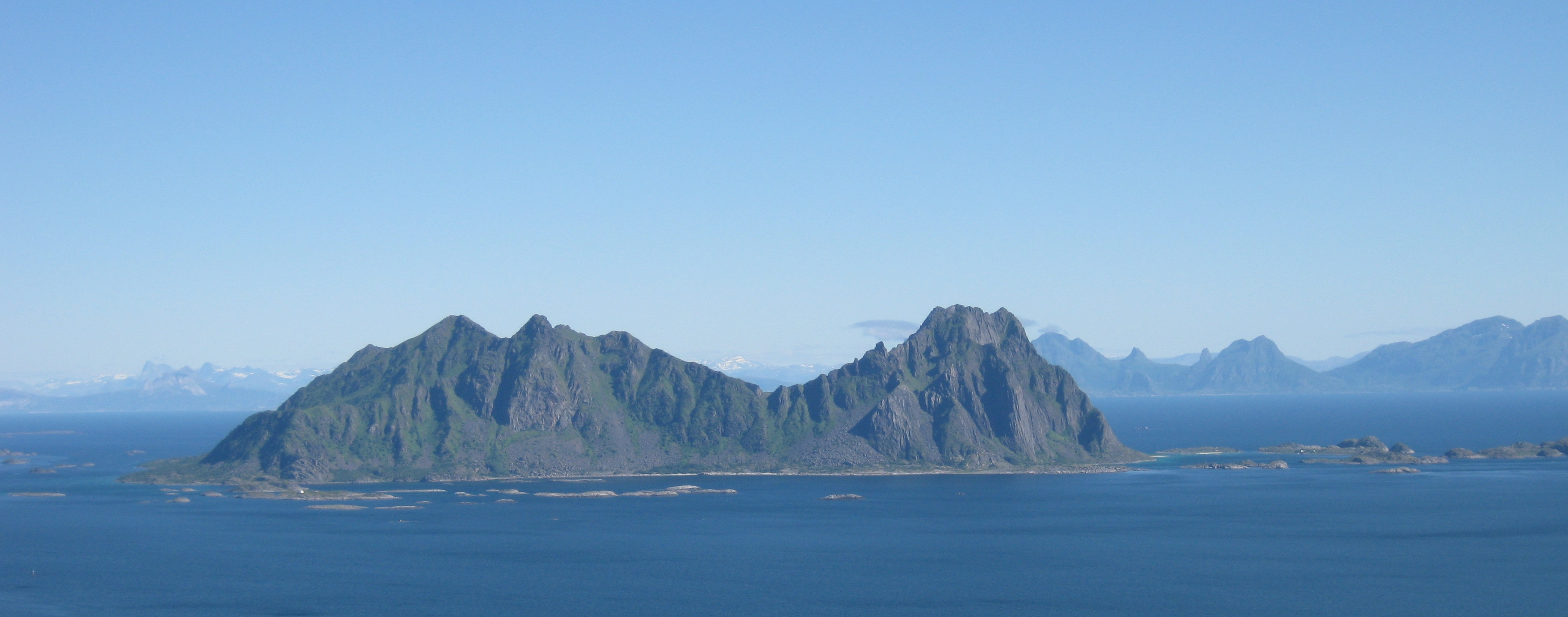 The island Litlmolla in Vågan, Nordland, Norway, seen from Tjeldbergtind near Svolvær. In the background are the mountains of the mainland.